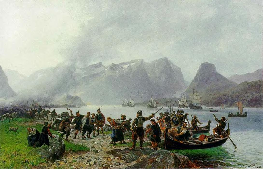 Depicting the scottish invasion in Norway 1612. The invasion was led by colonel Ramsay, but has in norwegian tradition been attributed to George Sinclair.